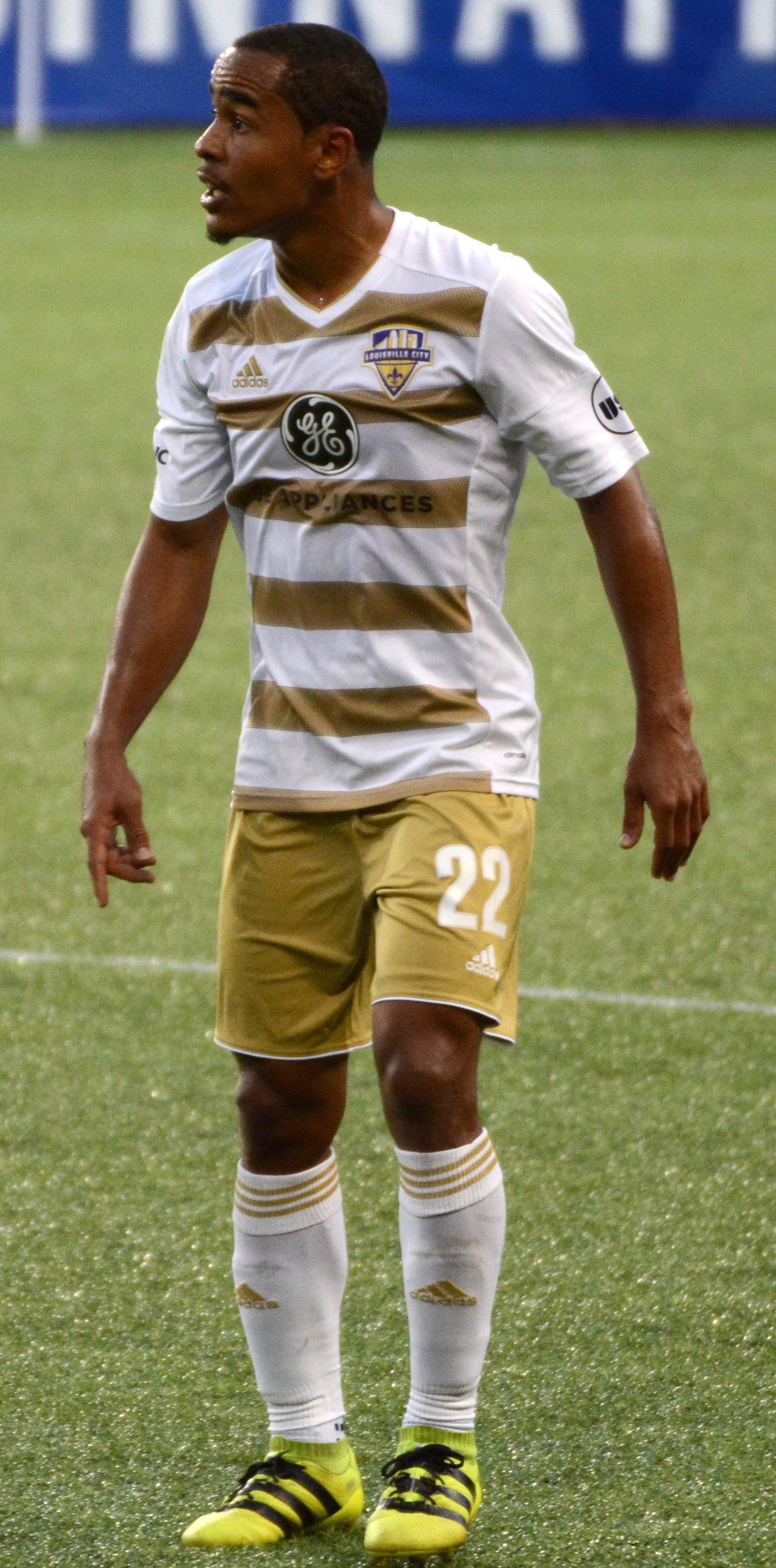 George Davis IV Taken at a Lamar Hunt U.S. Open Cup match between FC Cincinnati and Louisville City FC at Nippert Stadium in Cincinnati, Ohio on May 31, 2017.